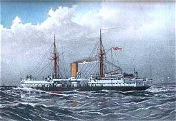 British battleship HMS Colossus (1882) Chromolithograph by W. Fred Mitchell.